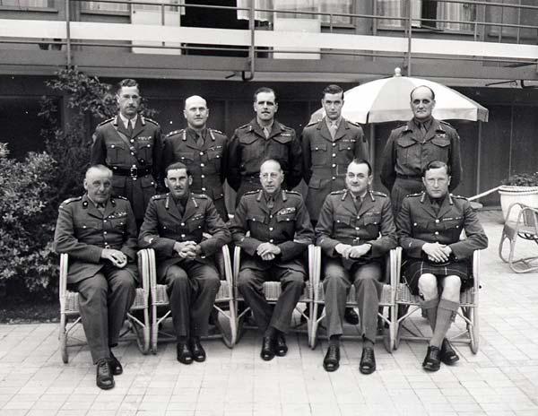 First Canadian Army generals in Hilversum, the Netherlands, on May 20 1945. Sitting, from left to right: Stanisław Maczek, 1st Polish Armoured Division; Guy Simonds, II Canadian Corps; H.D.G. Crerar, 1st Canadian Army; Charles Foulkes, I Canadian Corps; B.M. Hoffmeister, 5th Armoured Division. Standing, from left to right: R.H. Keefler, 3rd Infantry Division; A.B. Matthews, 2nd Infantry Division; H.W. Foster, 1st Infantry Division; R.W. Moncel, 4th Armoured Brigade; S.B. Rawlins, 49th British Division.